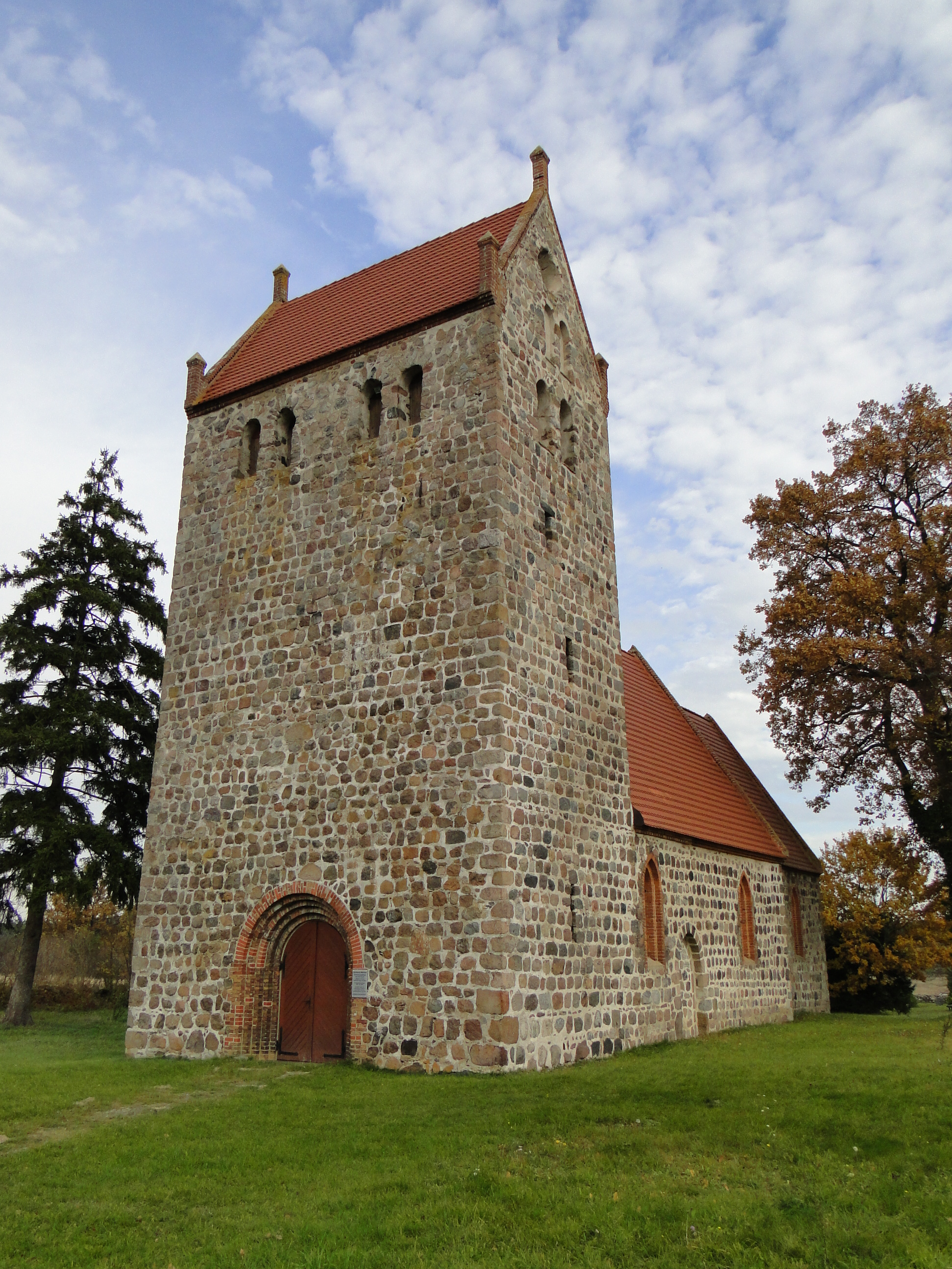 Church in Mechow, district Mecklenburg-Strelitz, Mecklenburg-Vorpommern, Germany